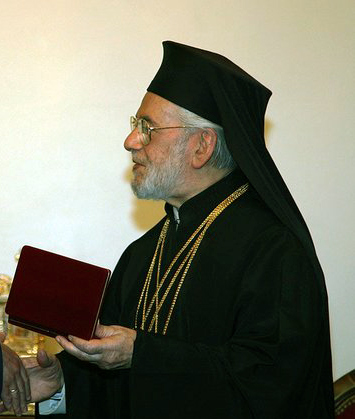 President of Russia awarded Patriarch Ignatius IV of Antioch and All The East the Order of Friendship.